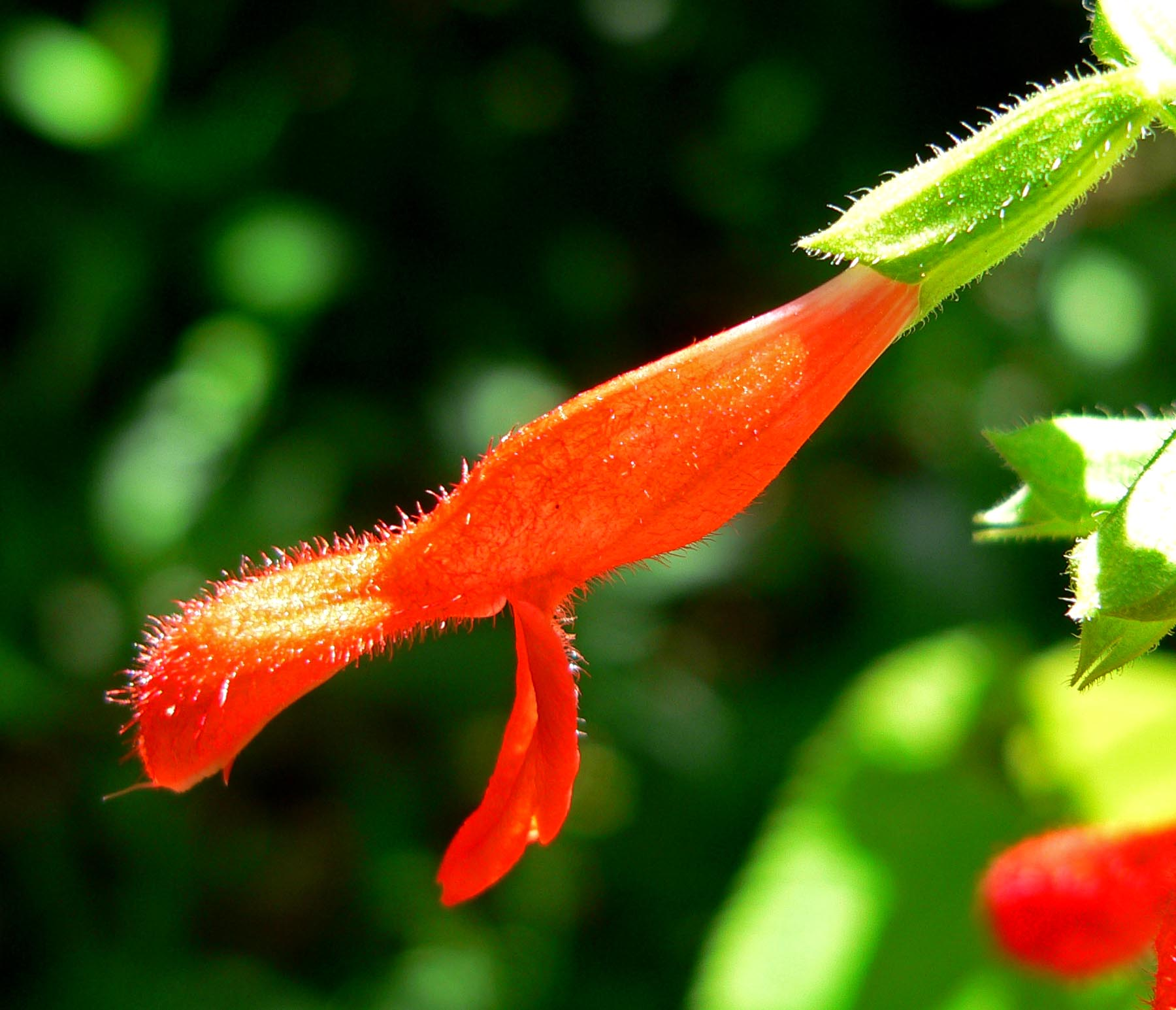 Photo of Salvia gesneriiflora at the San Francisco Botanical Garden